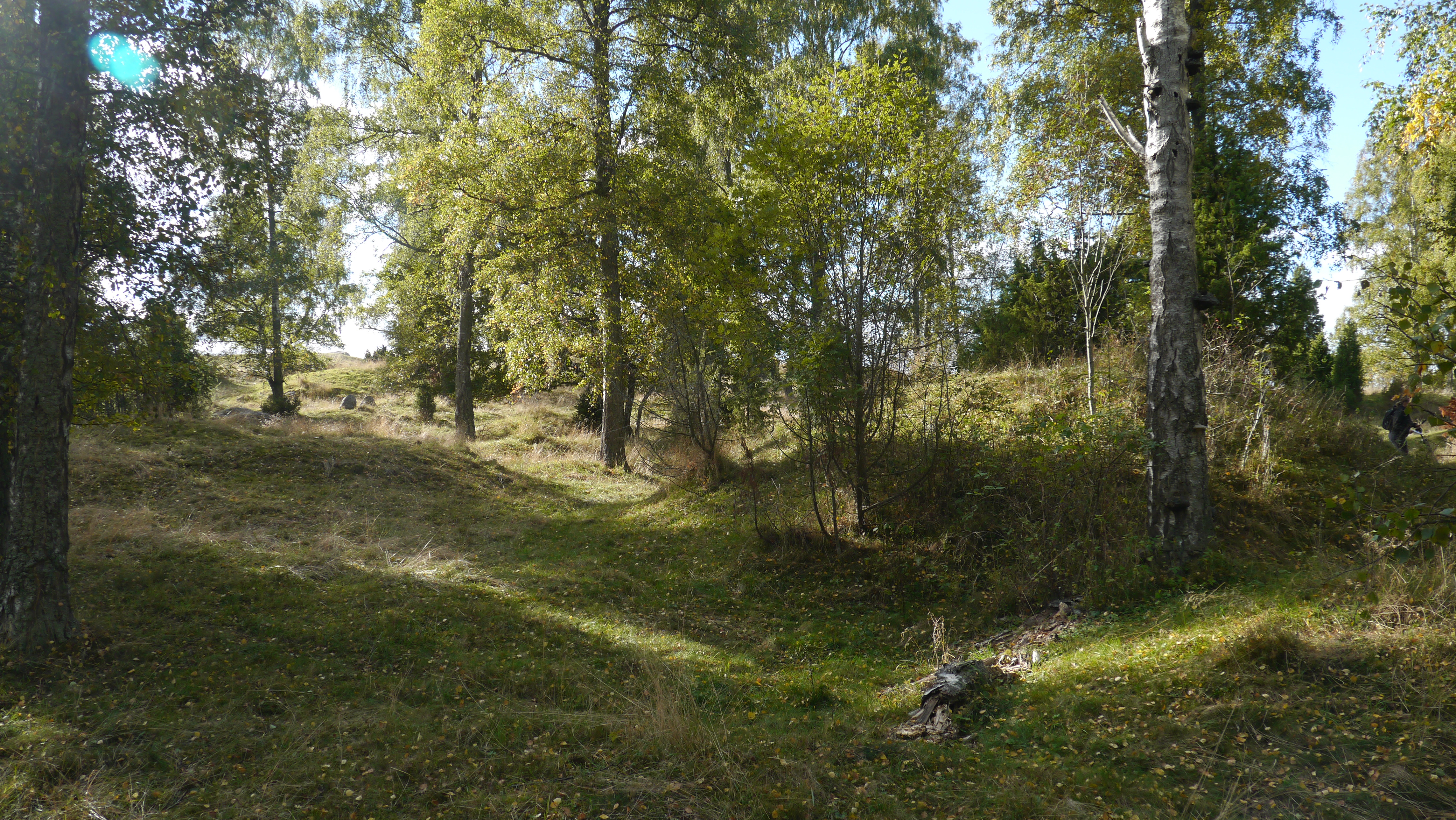 Funeral mounds in Hemlanden, Birka, Sweden. The graves of Hemlanden are often very close to each other.